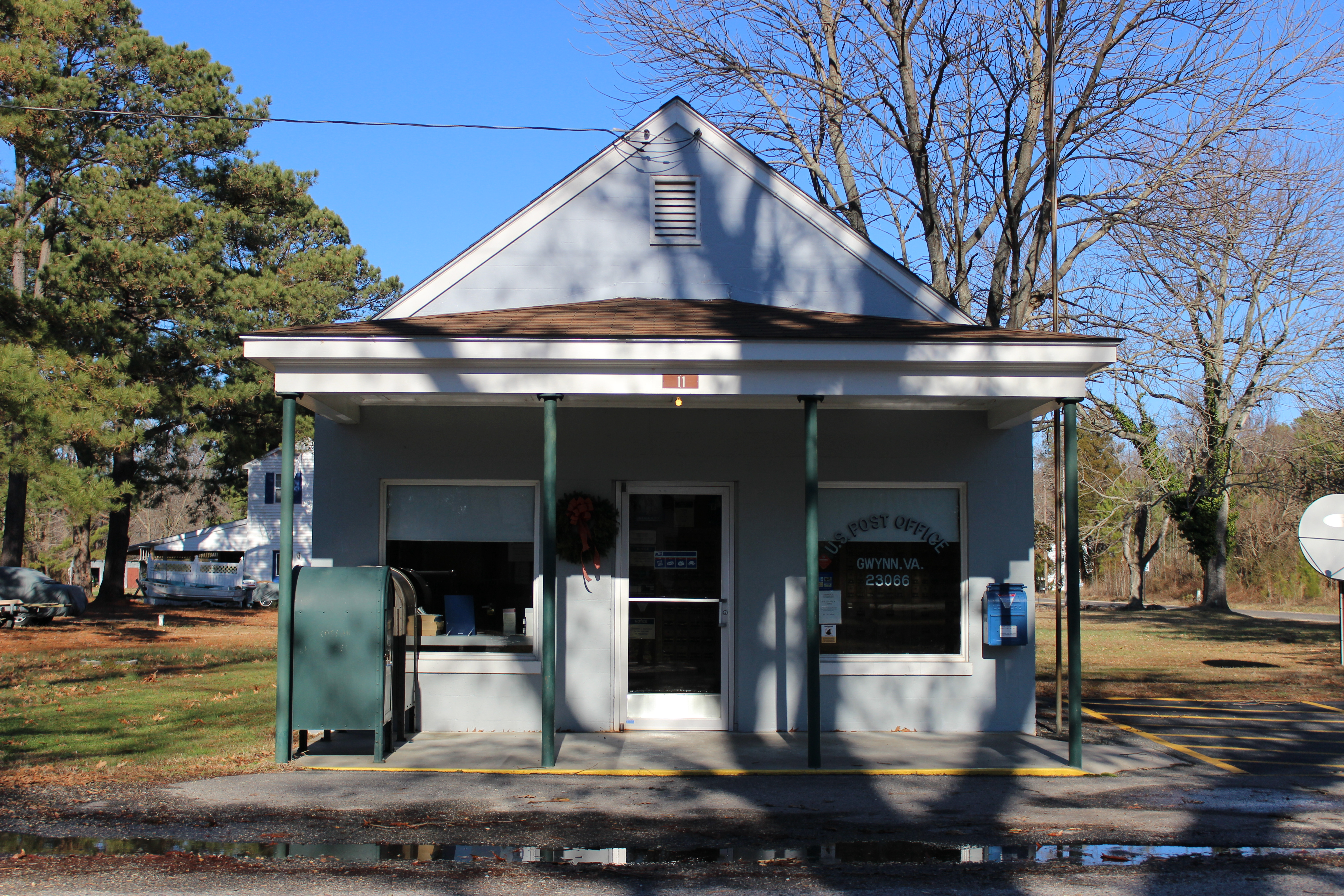 This is a U.S. Post Office, located at 11 N Bay Haven Rd, Gwynn, VA.